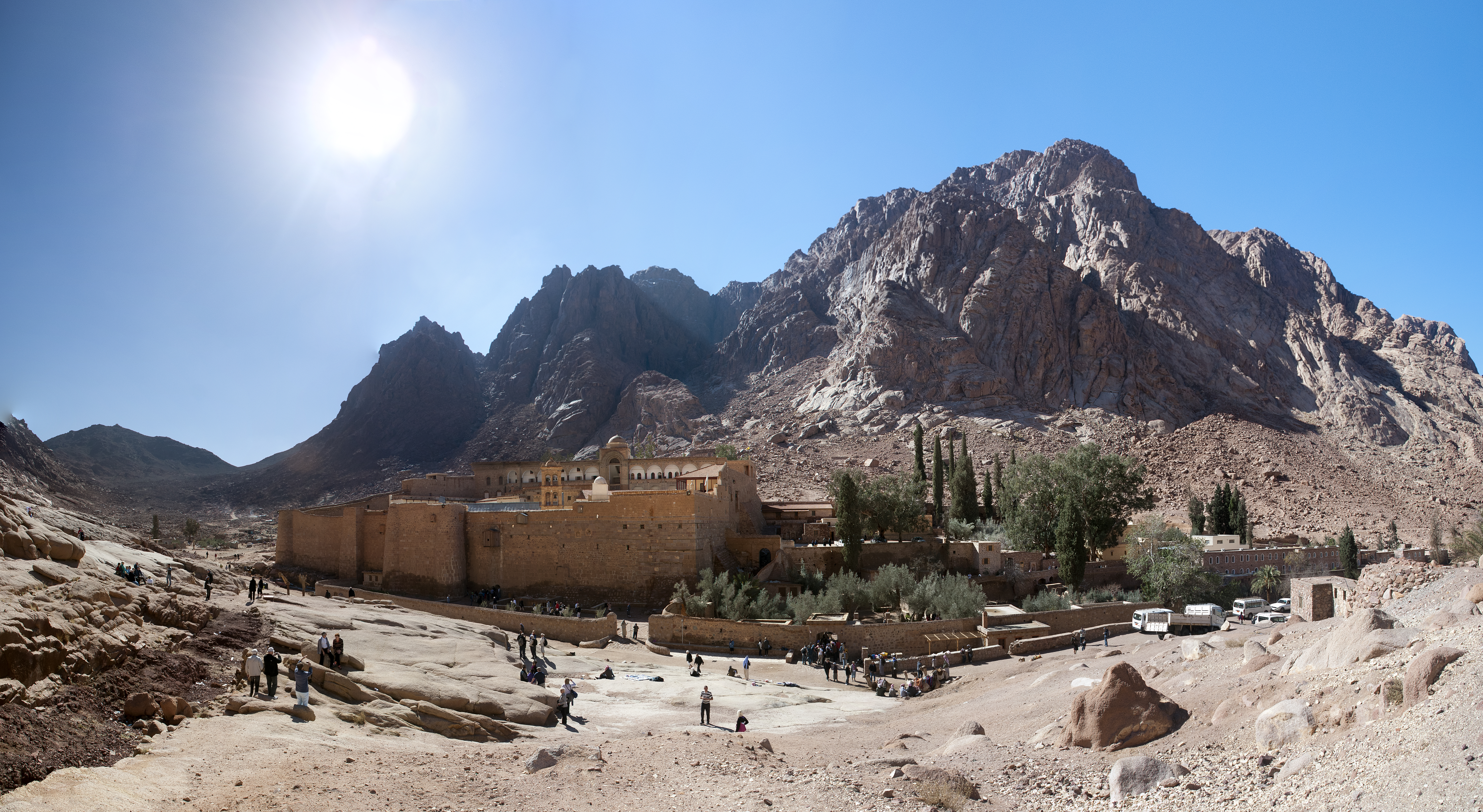 Saint Catherine's Monestary, Sinai Peninsula, Egypt